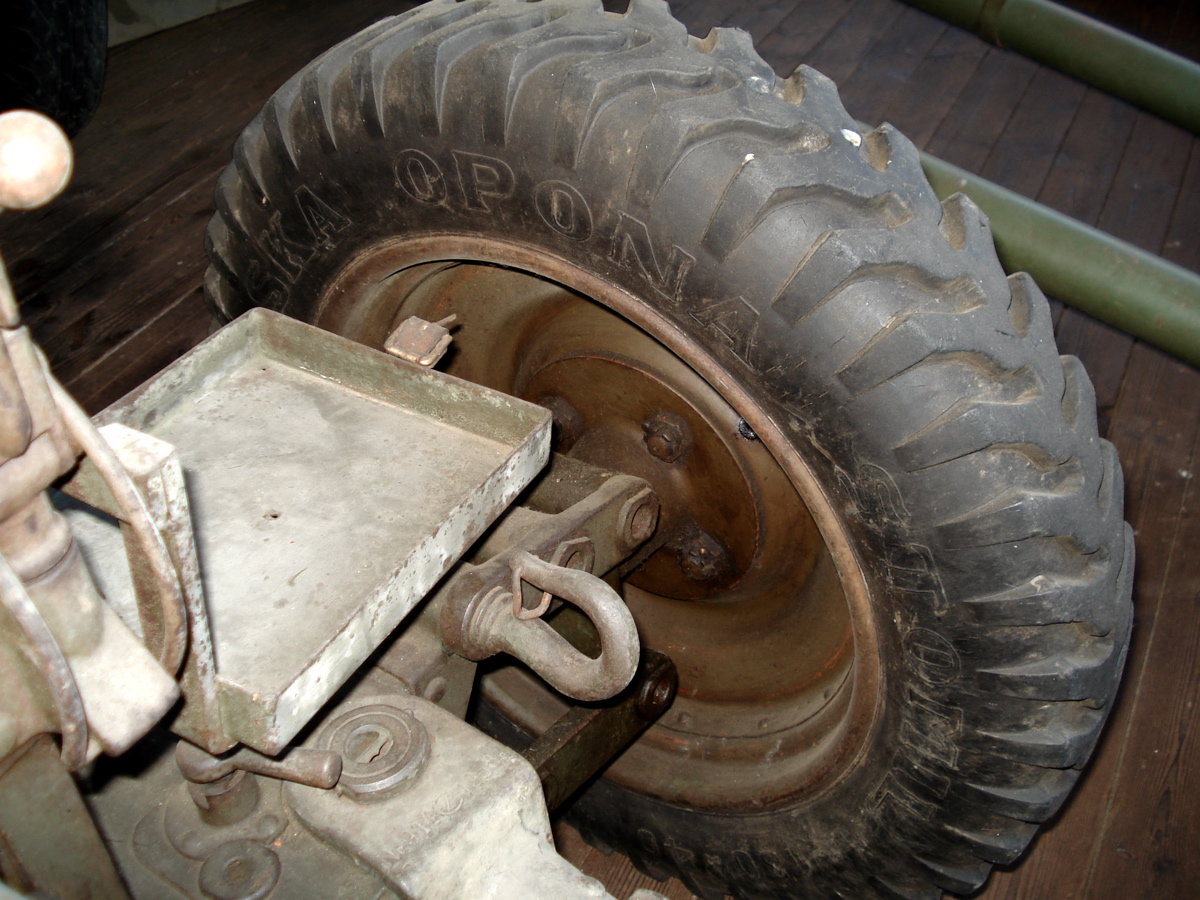 Polish 37 mm anti-tank gun wz. 1936 (a license copy of Swedish Bofors 37 mm anti-tank gun) displayed in Finnish Tank Museum (Panssarimuseo) in Parola. Detailed view of the original Polish tire, manufactured by Stomil. Photo taken on July 14, 2006. Source: Photo by me, User:Balcer.